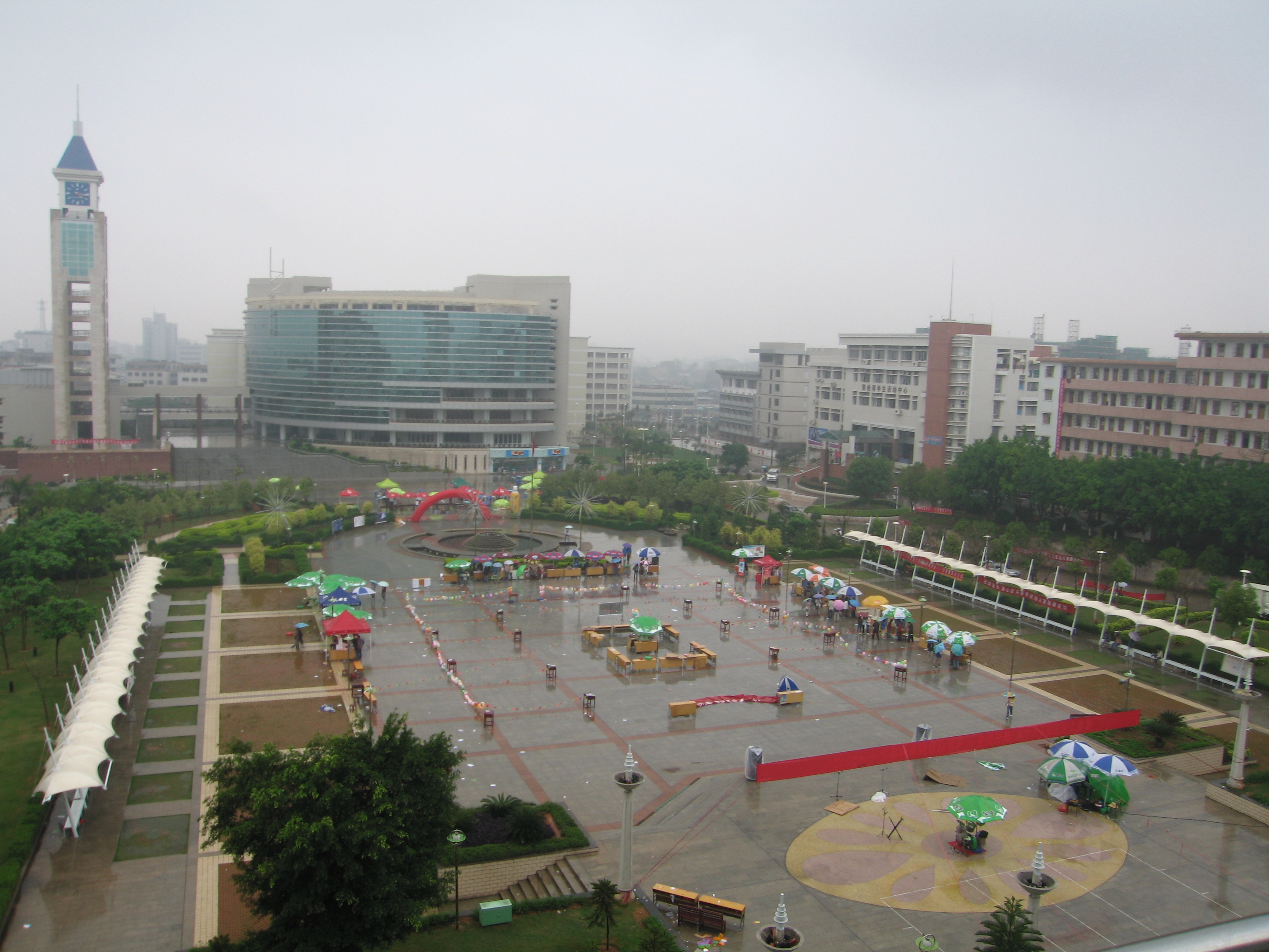 New Century Square in Meizhou, Guangdong, China